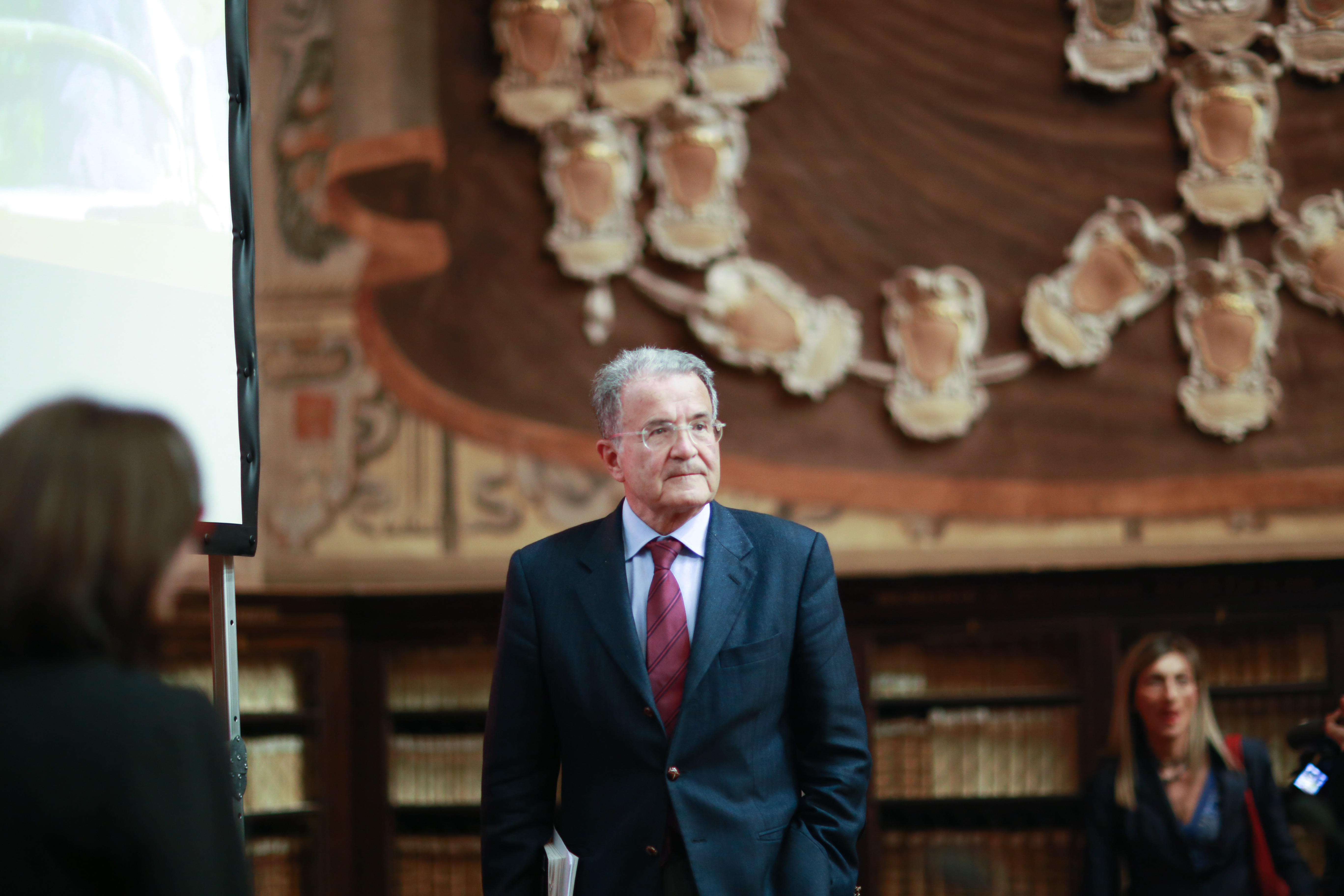 Romano Prodi in 2016.